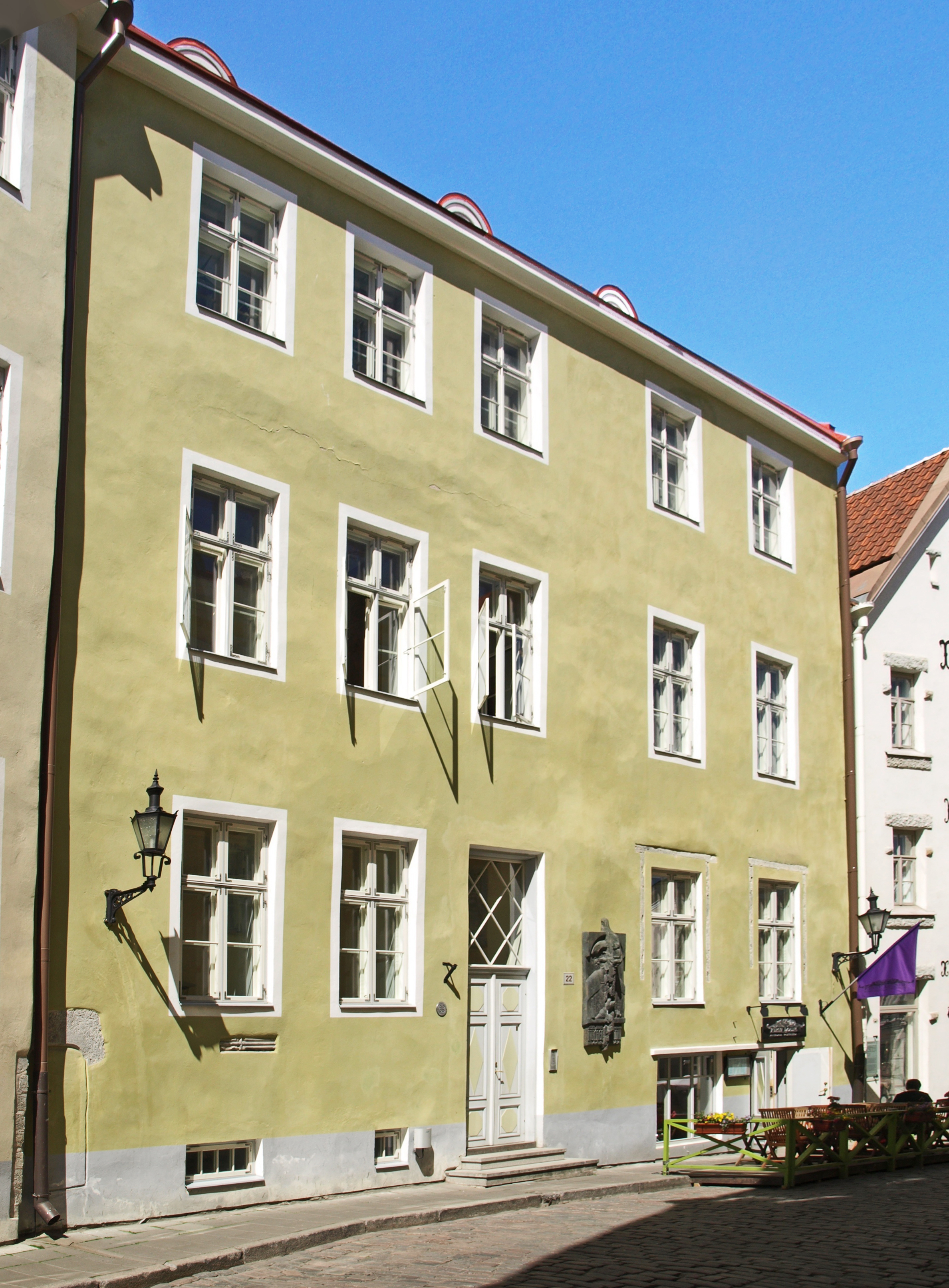 House of Michel Sittow, Tallinn, Rataskaevu 18/20